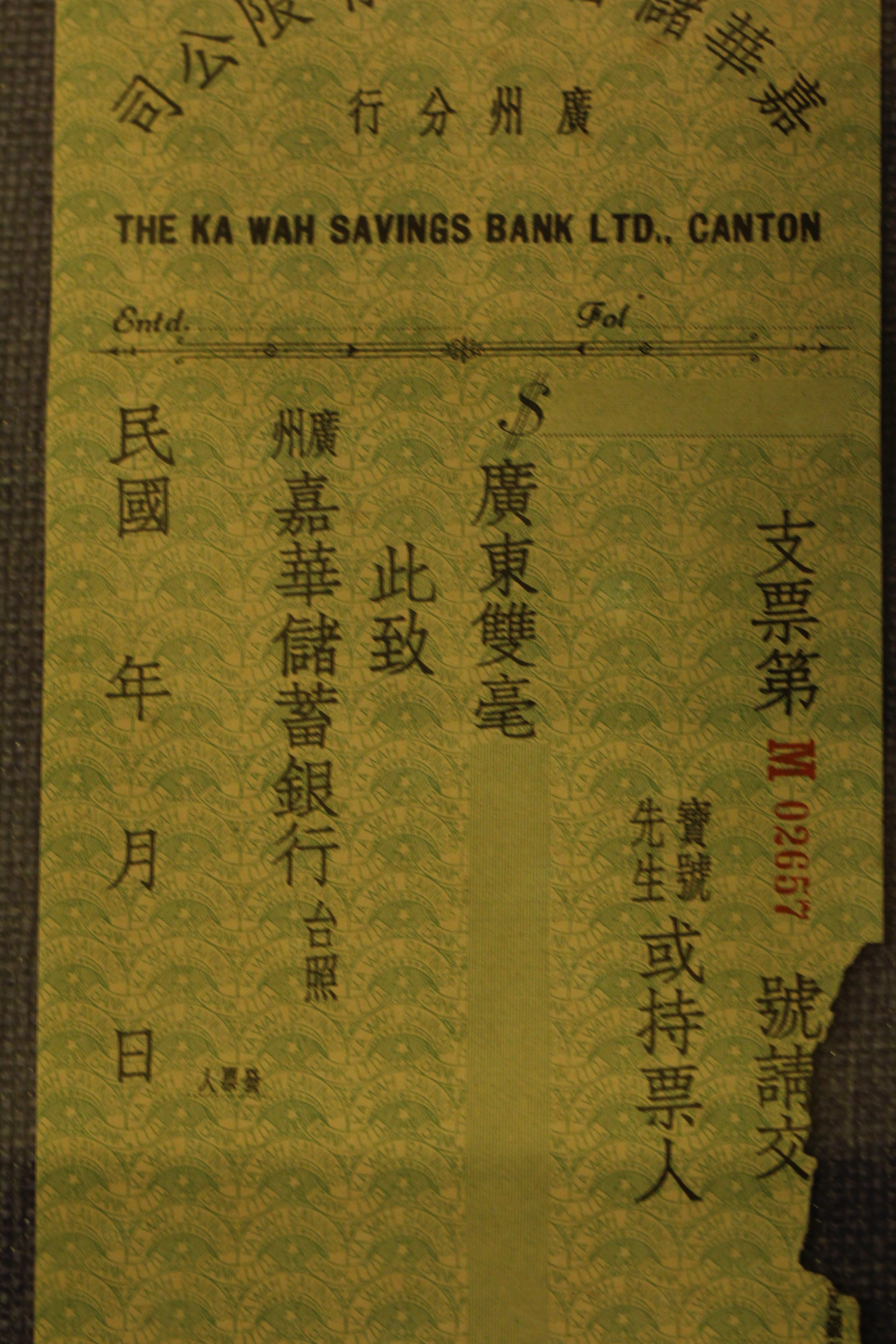 The Ka Wah Savings Bank Co., Ltd. Canton